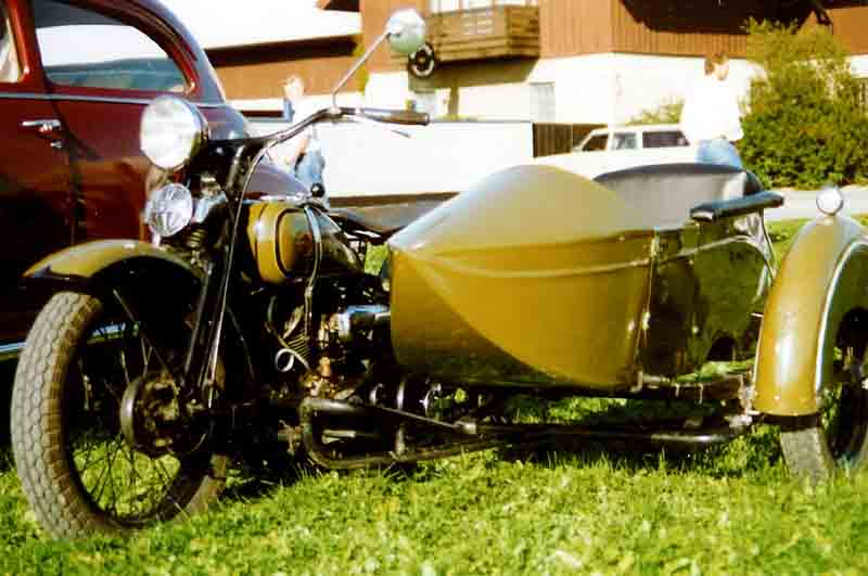 Harley-Davidson 1200 cc SV 1936